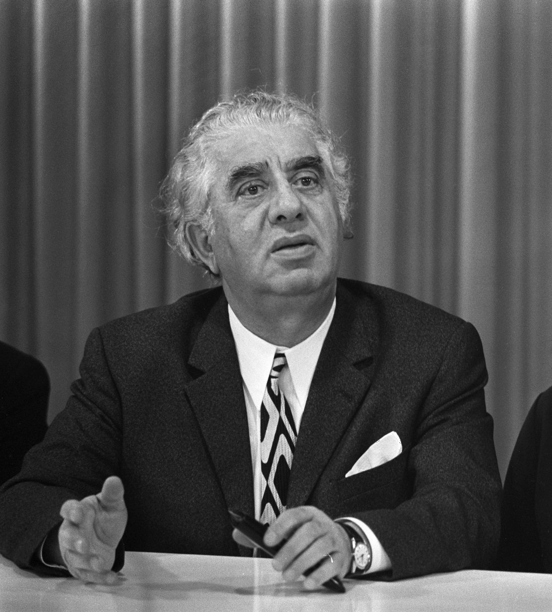 Soviet Armenian composer Aram Khachaturian in the Netherlands in 1971